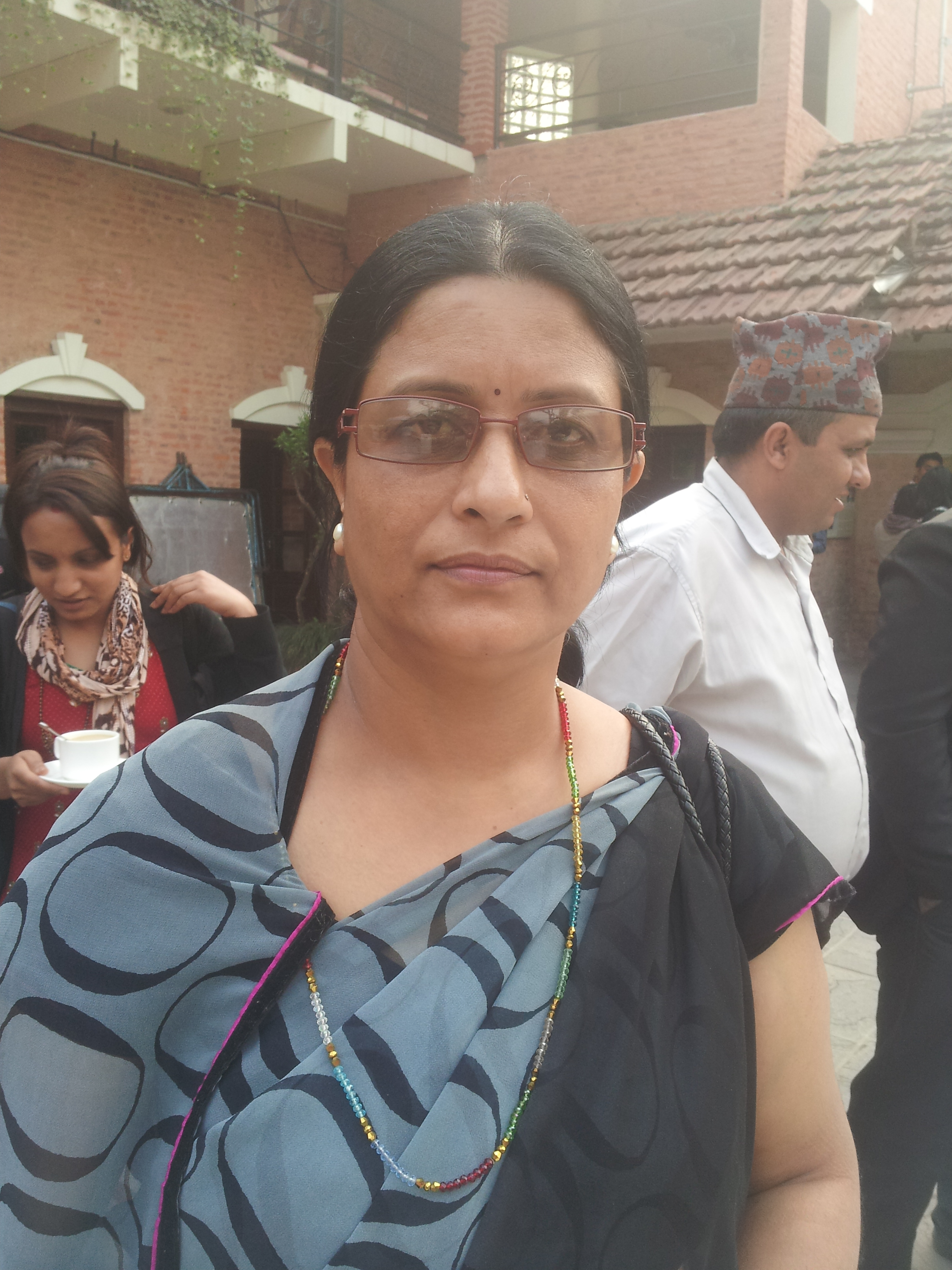 Shesh Chandtara during Girls in ICT Day 2014 Kathmandu.